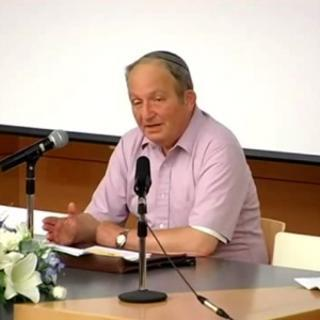 Prof. Harold Basch